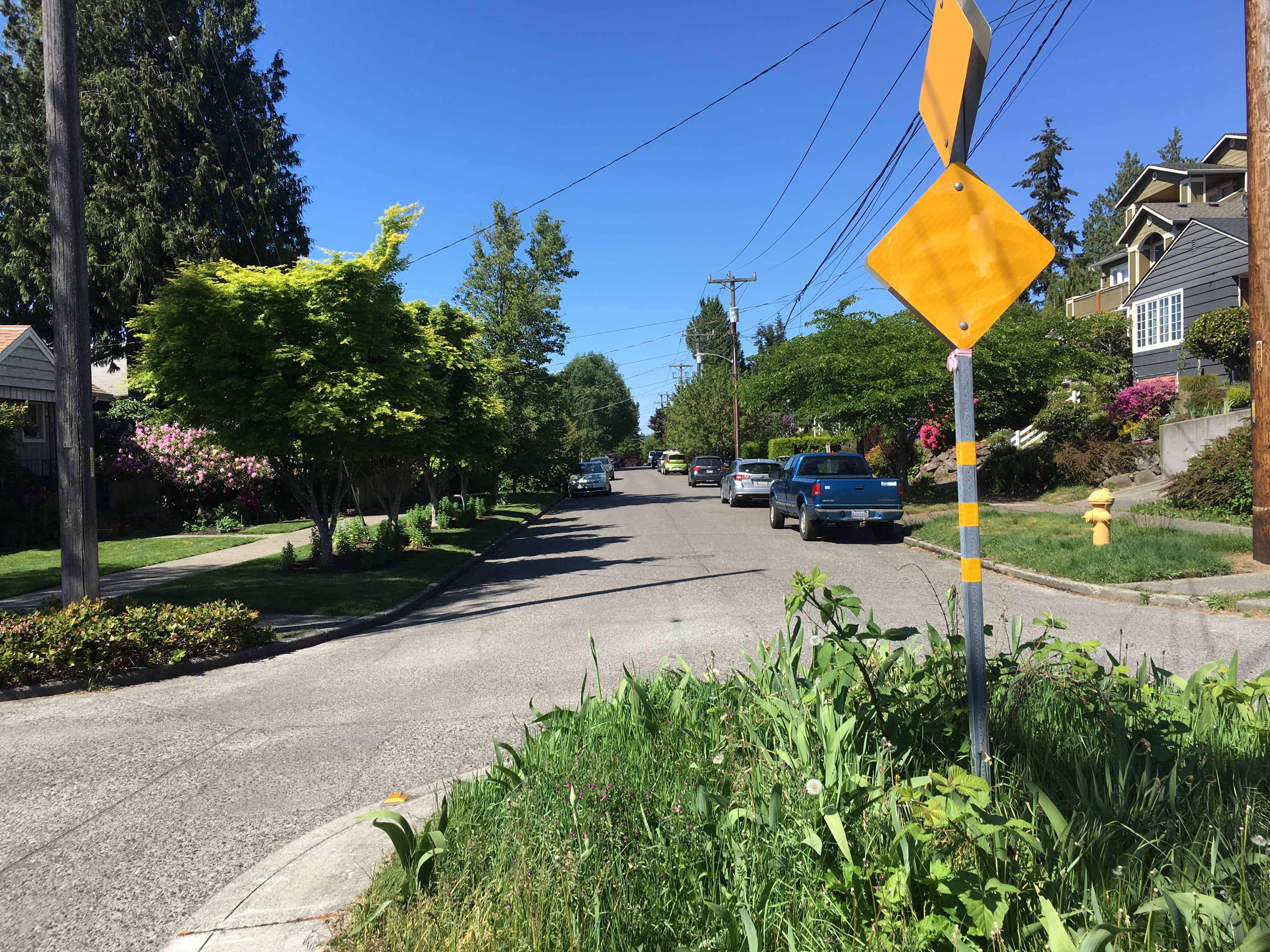 32nd Ave W & W Thurman St